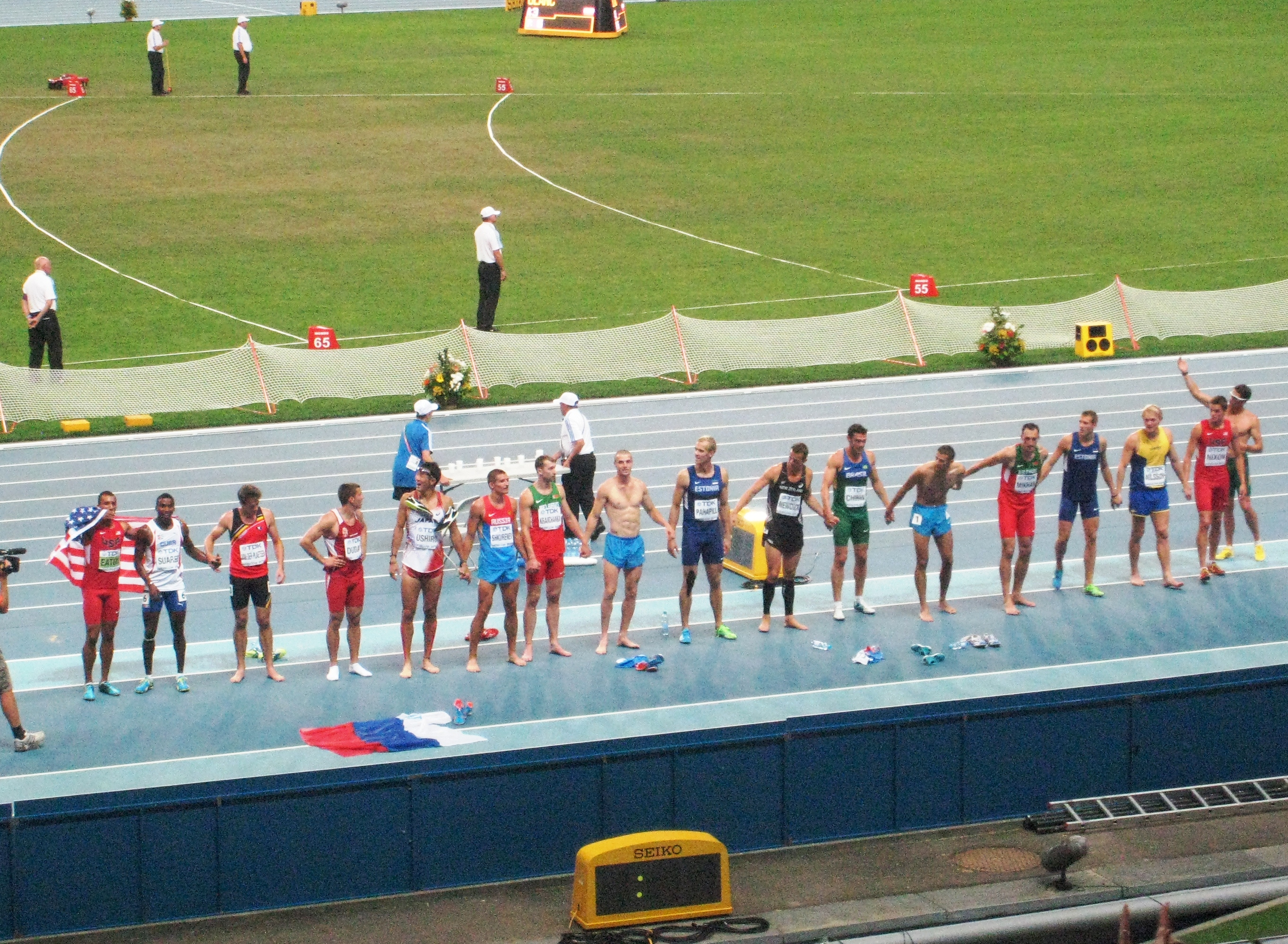 2013 World Championships in Athletics – Men's decathlon. Competitors after the second 1500-metre run.